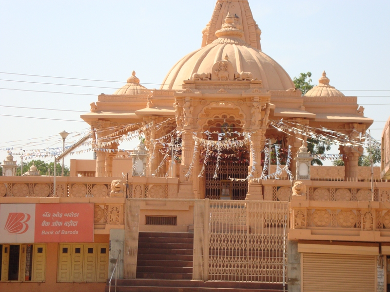 Umiya Mataji Temple at Gozaria Town near Tower.